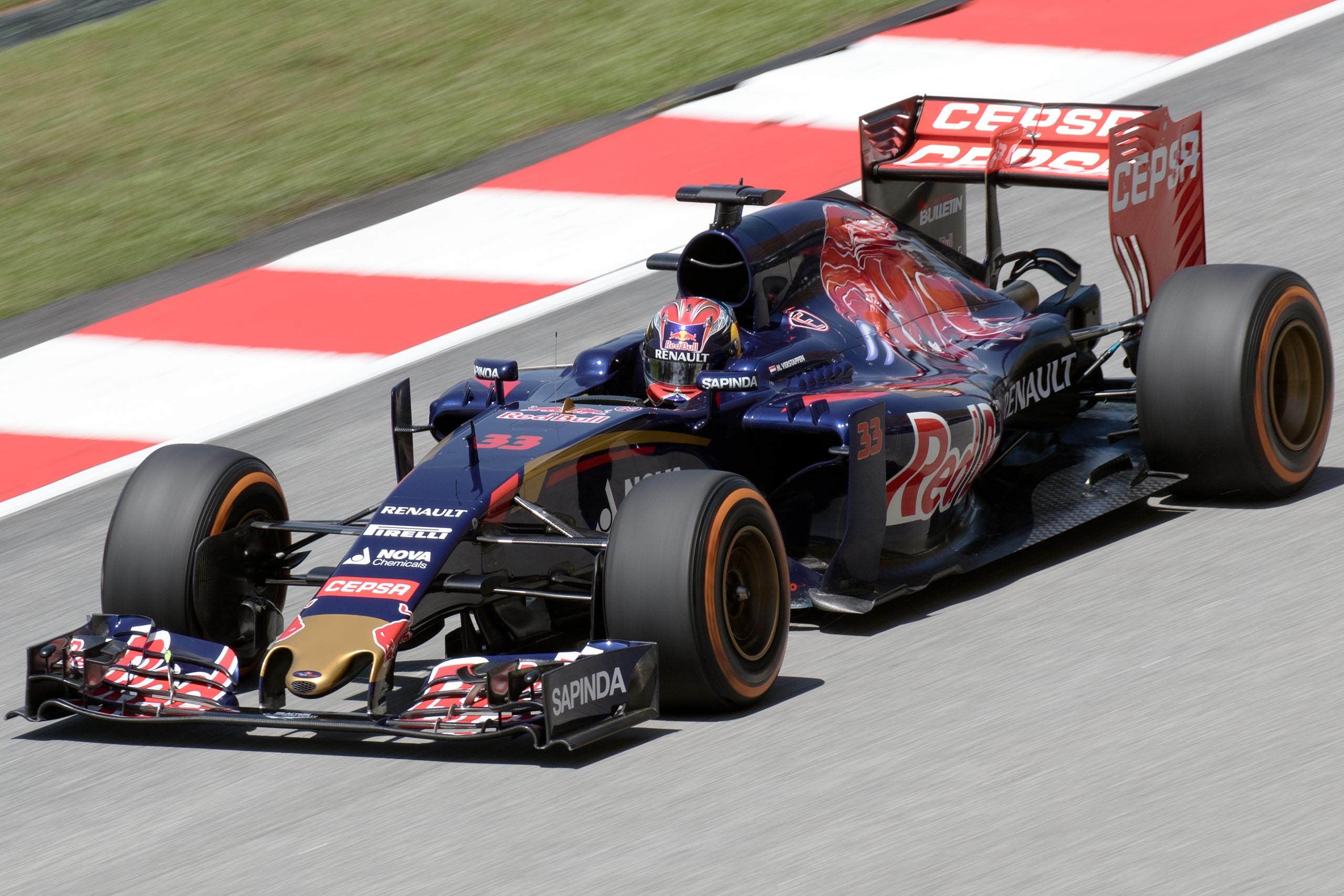 Formula One 2015 Rd.2 Malaysian GP: Max Verstappen (Toro Rosso)